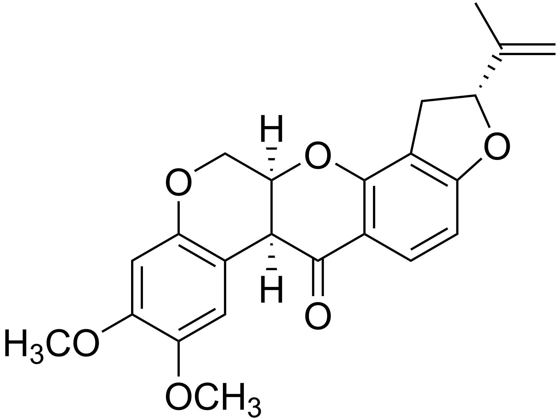 Chemical structure of rotenone created with ChemDraw